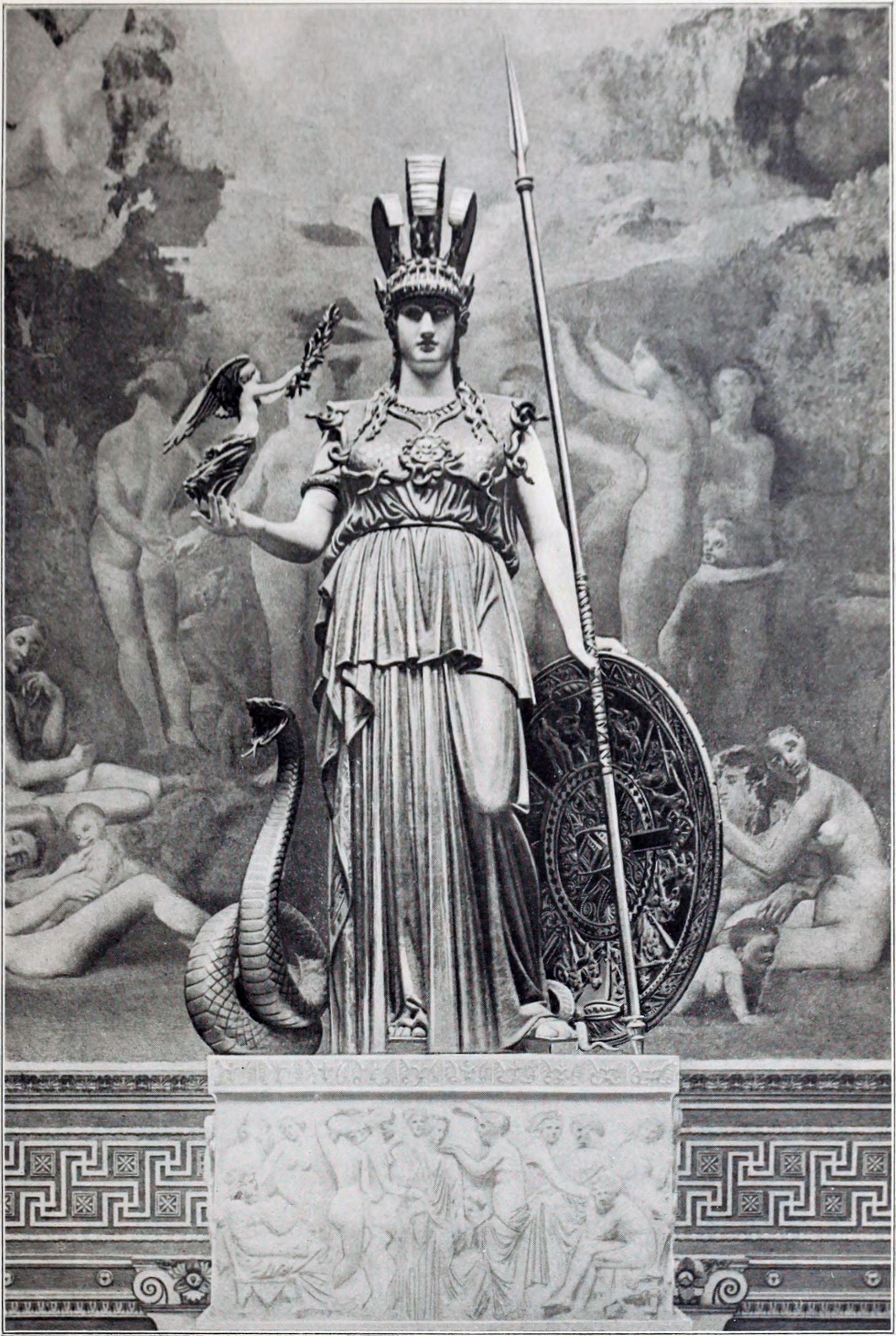 The nine-foot-tall chryselephantine sculpture Minerve by Simart and Duponchel, first exhibited in the Palais des Beaux-Arts at the Paris International Exhibition of 1855, and later located at the Château de Dampierre.